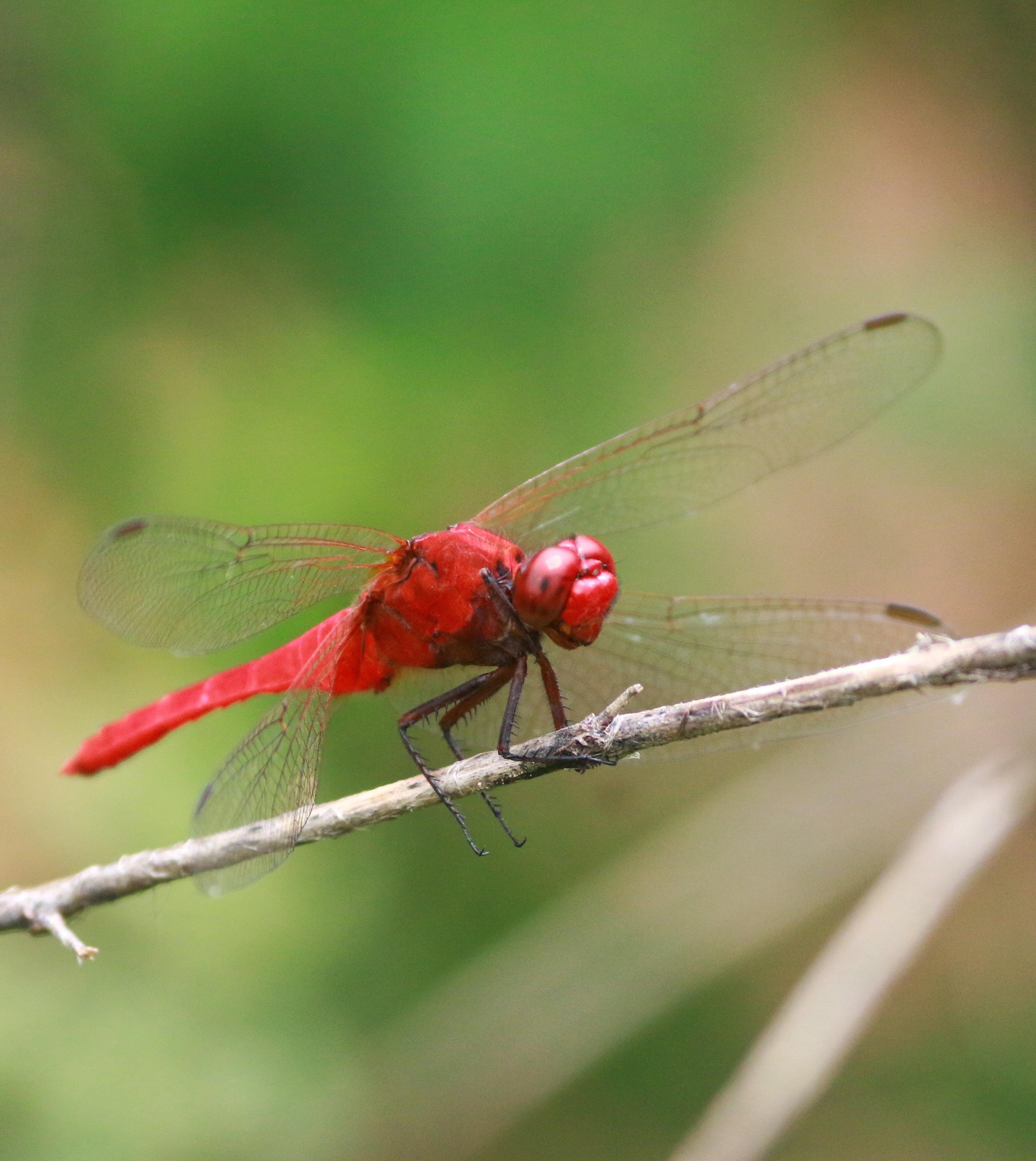 Rufous Marsh Glider,Rhodothemis rufa